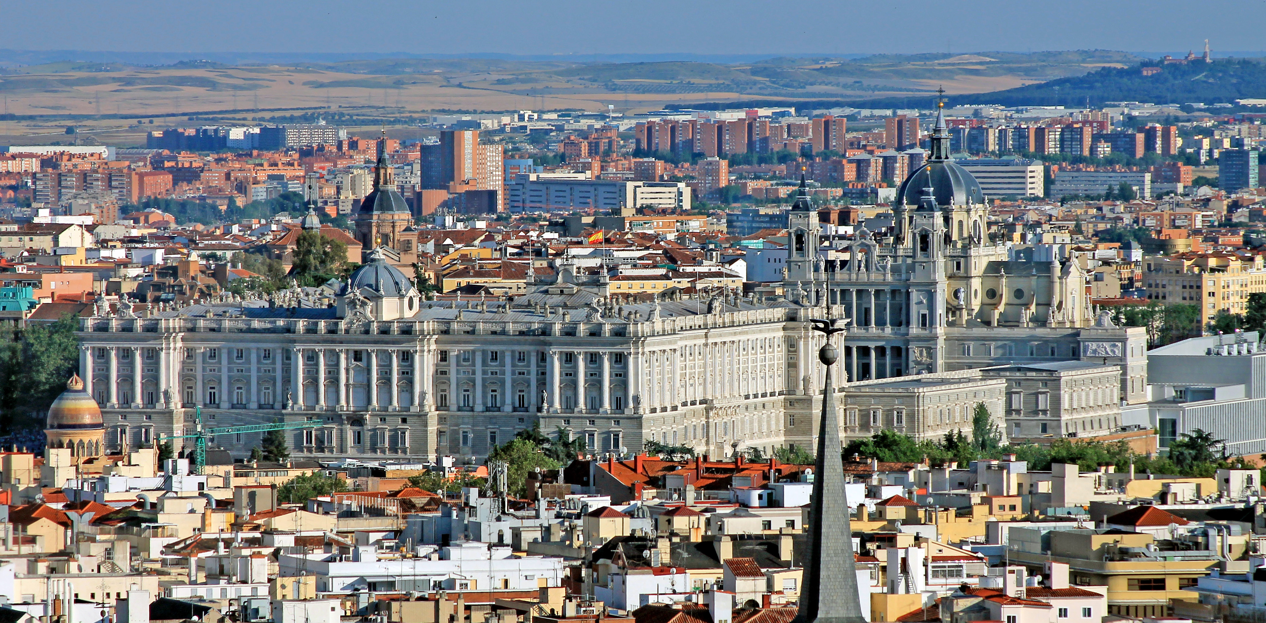 View of the Royal Palace (left) and Almudena Cathedral (right) in Madrid (Spain) from Faro de Moncloa.